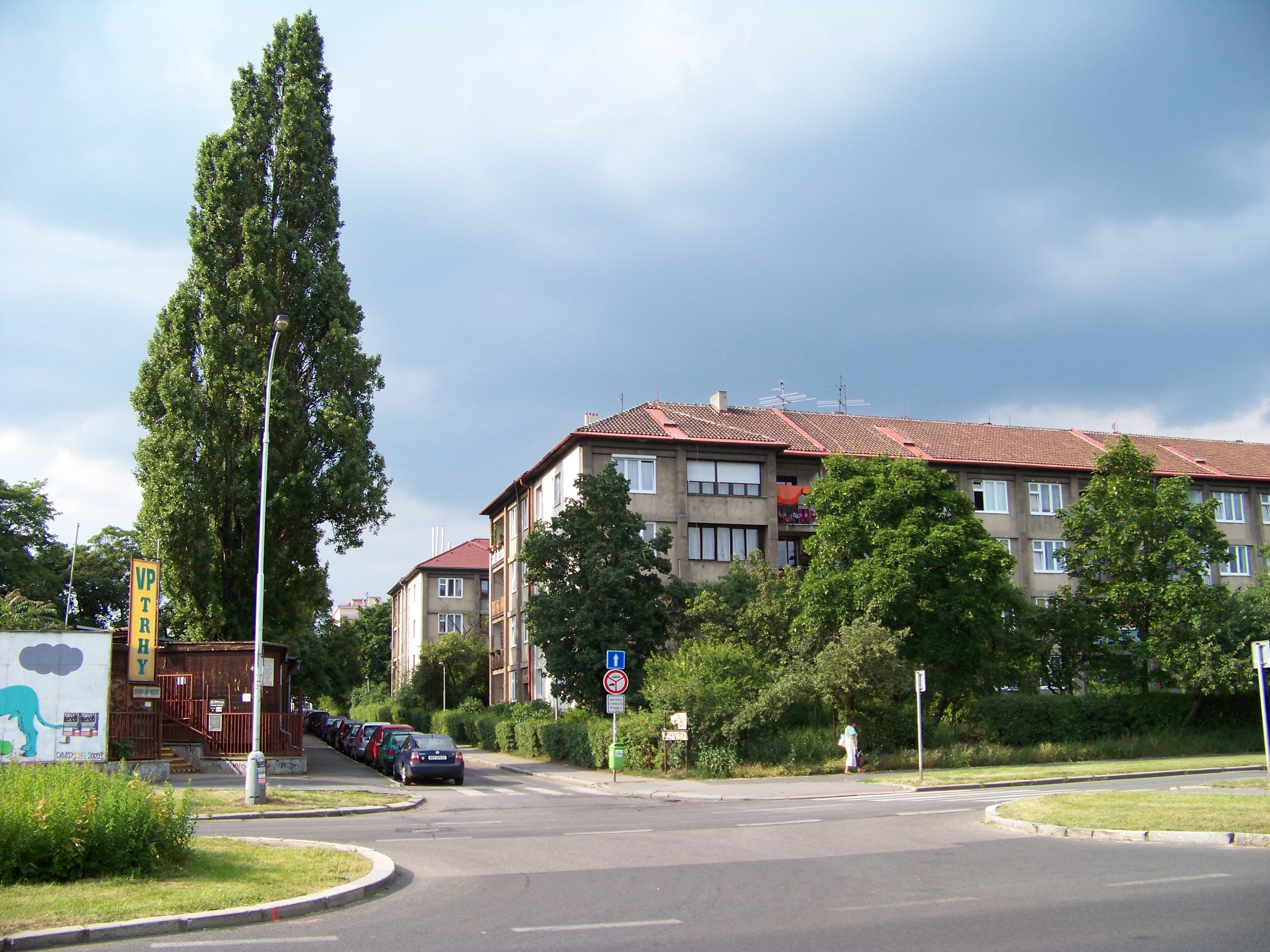 Strašnice, Prague, the Czech Republic. Bečvářova street, from V Olšinách street.